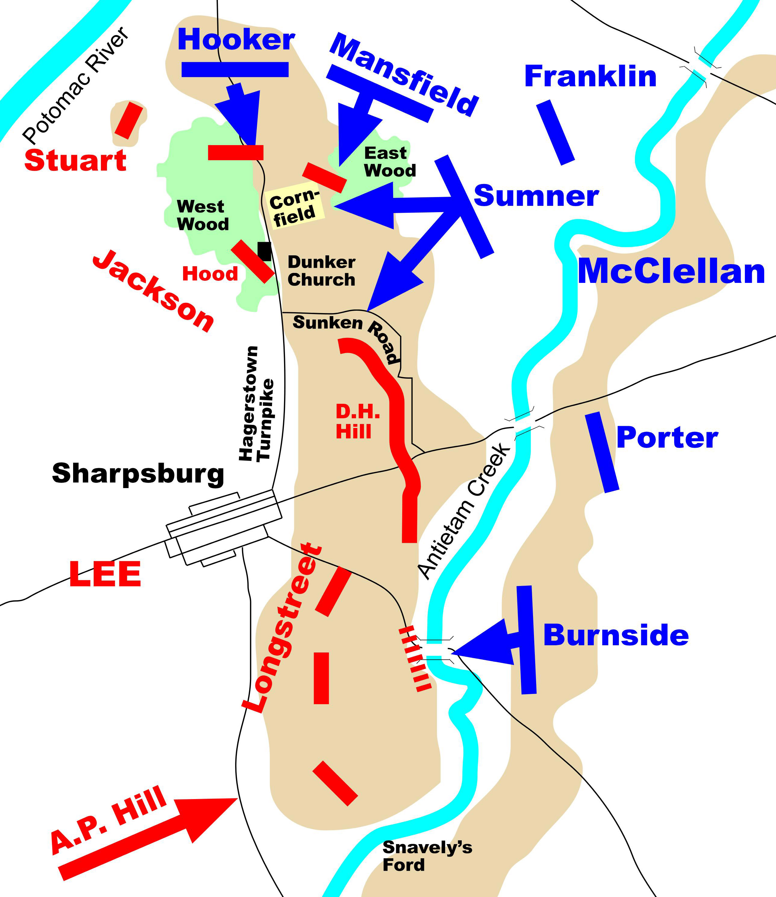 Map of the Battles of Antietam — on September 17, 1862.